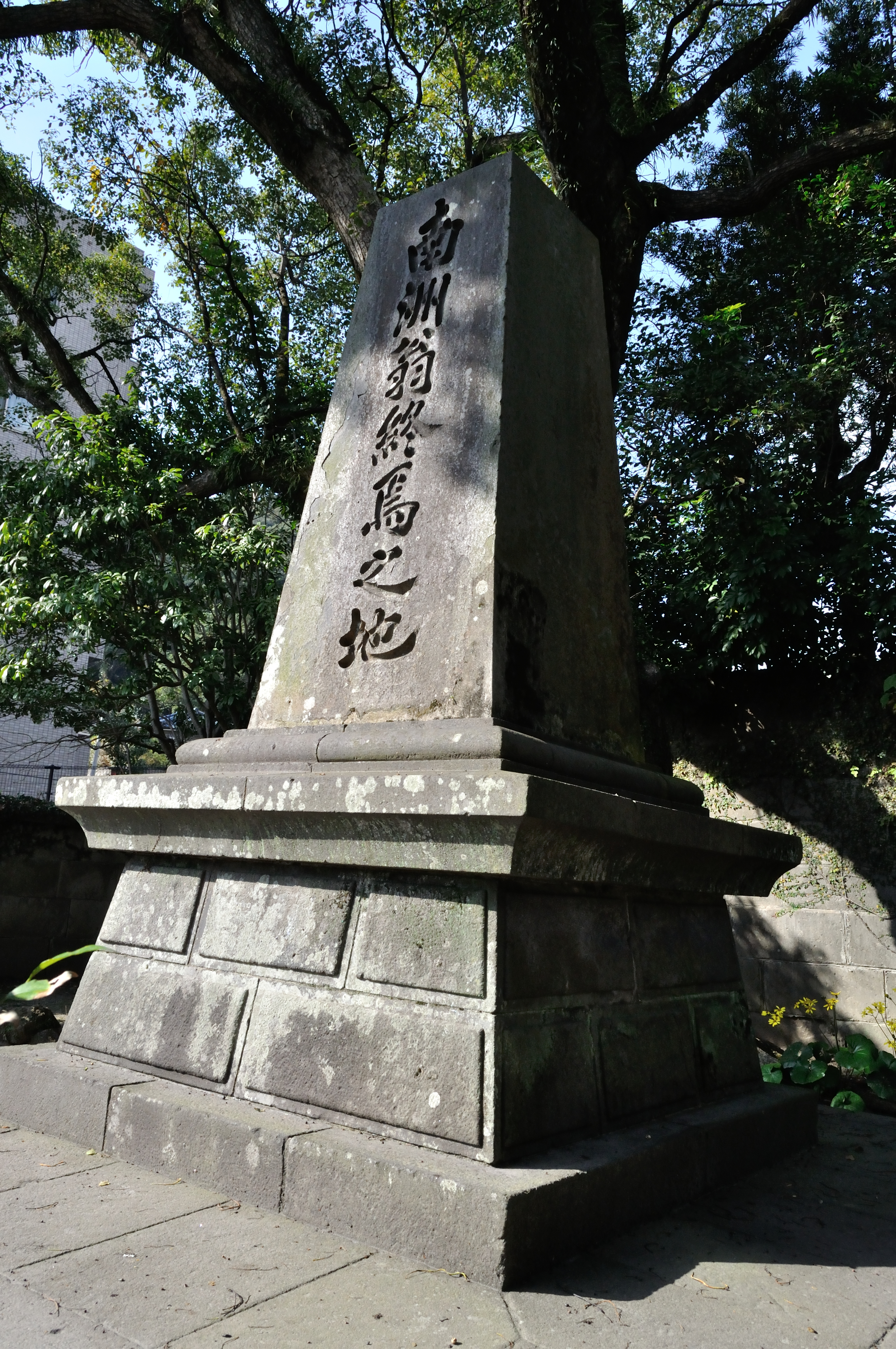 Monument of the deathplace of Saigō Takamori at Kagoshima, Japan